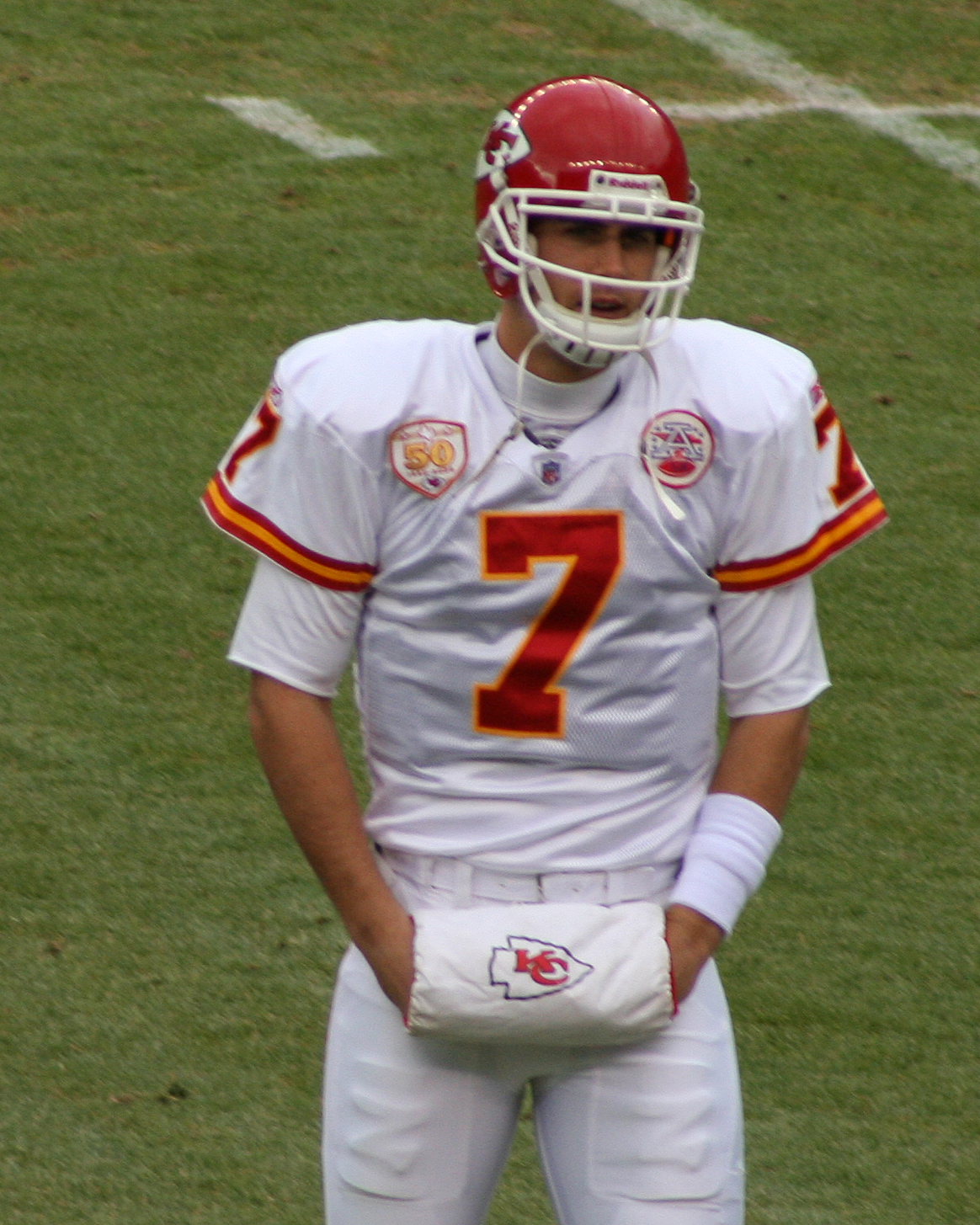 Matt Cassel, a player on the Kansas City Chiefs American football team.